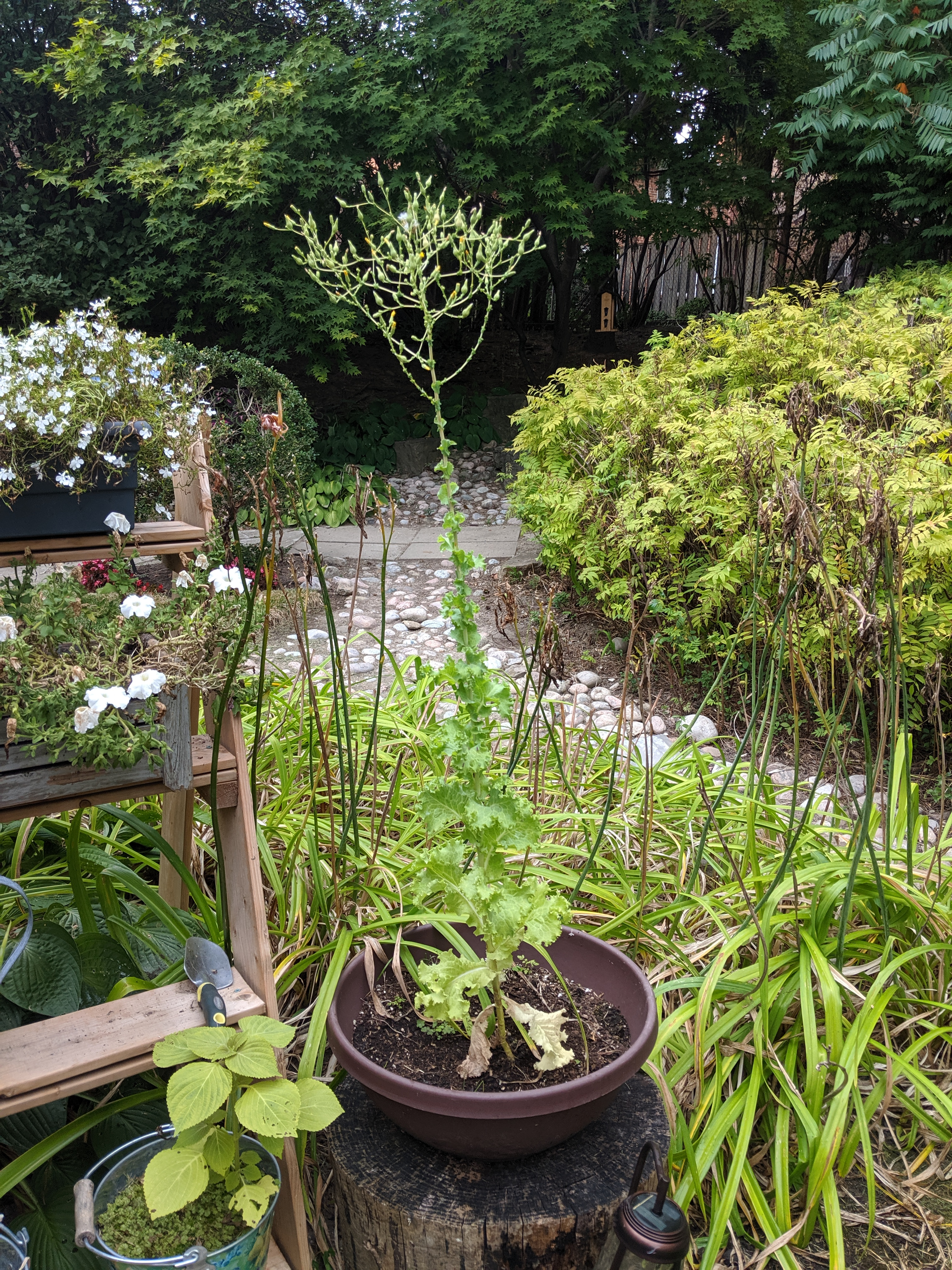 Lettuce plant reaching for the sky.